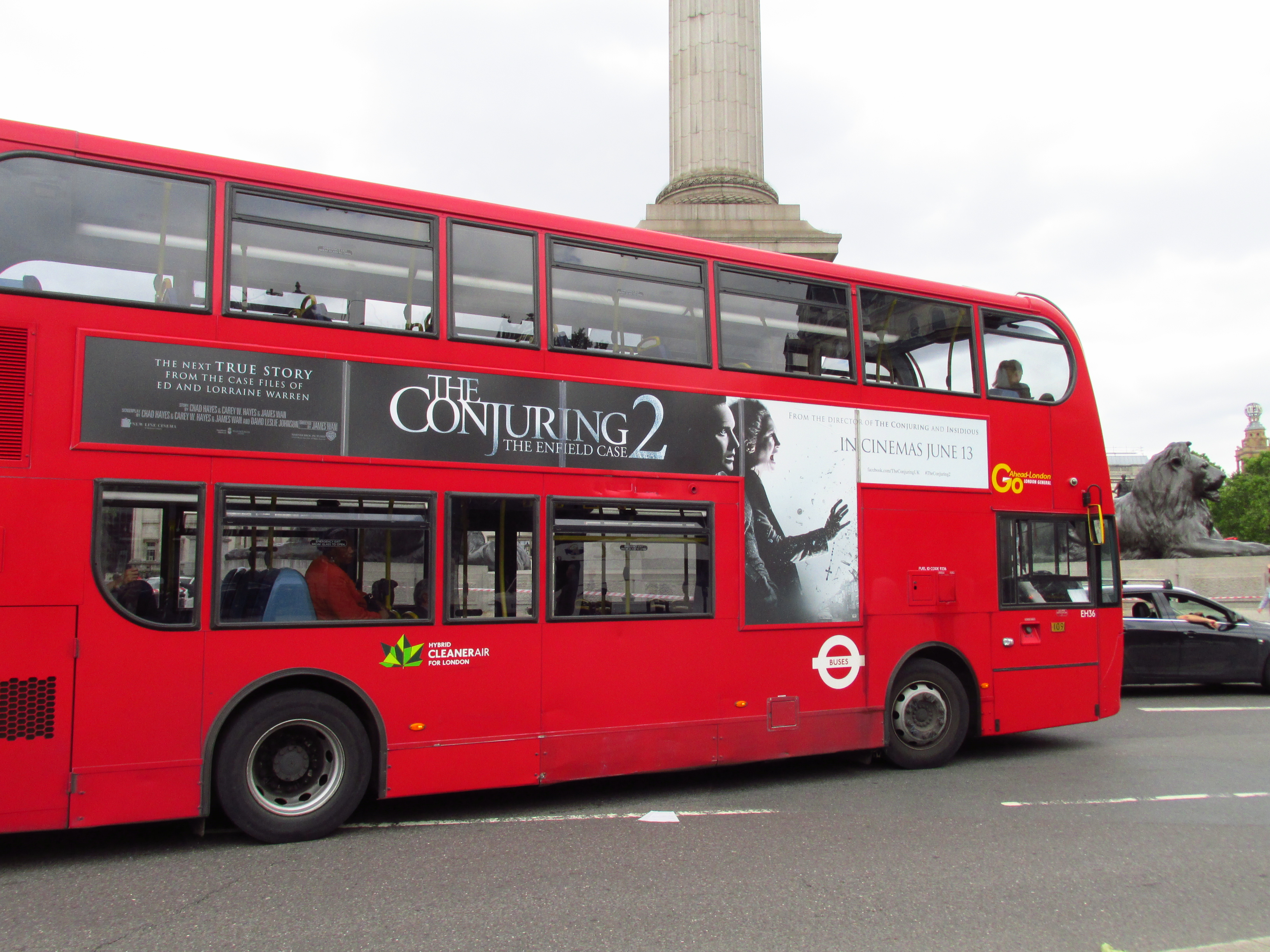 London June 21 2016 065 The Conjuring 2